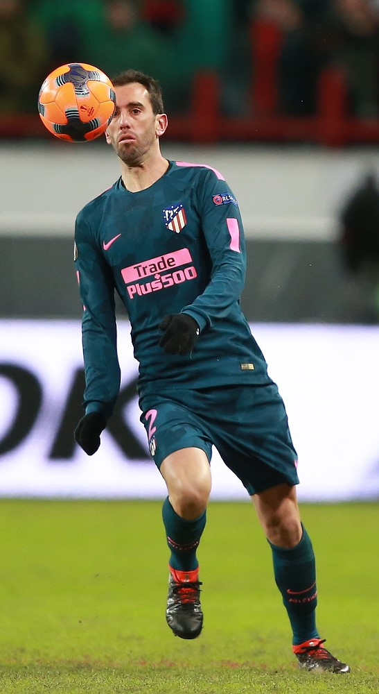 Diego Godín